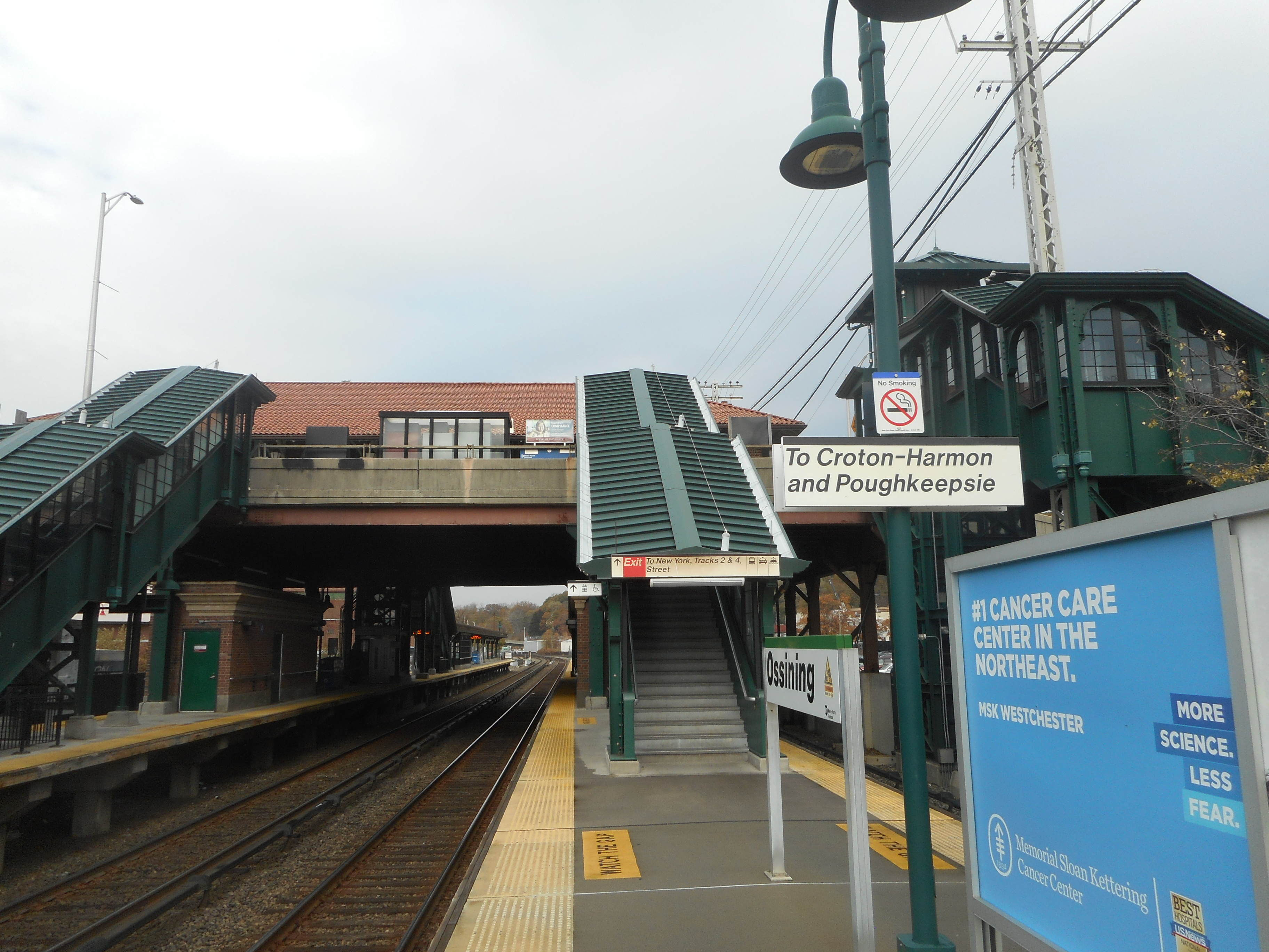 Looking north along the Croton-Harmon and Poughkeepsie-bound platform at the staircase and station house of the Ossining (Metro-North station) along the Metro-North Hudson Line in the Village of Ossining, New York. The station house is above the tracks on the north side of the Secor Road bridge which was built in 1914, and the bridge has been replaced in 1980. An elevator shaft can be seen along the local tracks on the right, but elevators also exist for both platforms under this bridge leading to the rear porch/pedestrian bridge of the station house.